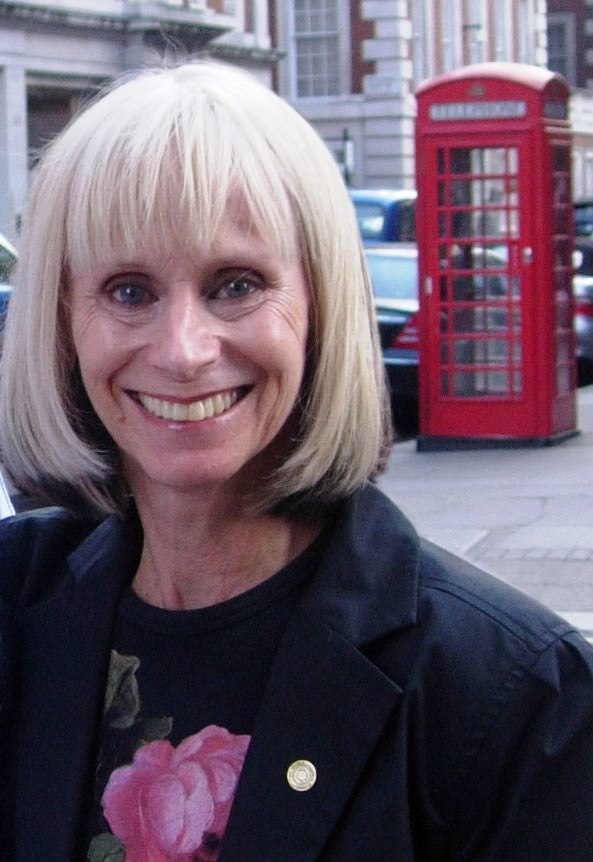 British actress Rita Tushingham photographed in London